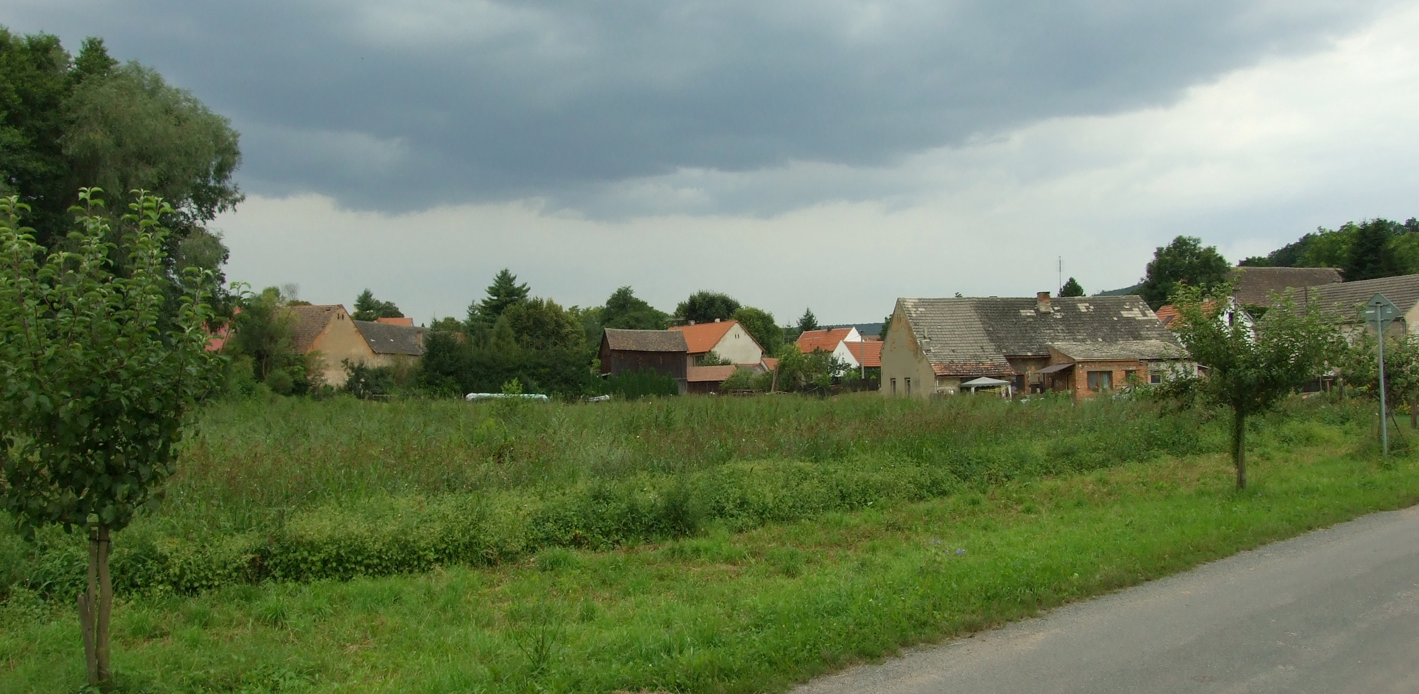 Hřešice (Pozdeň) seen from east, Central Bohemian Region, CZ